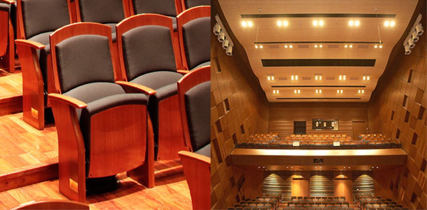 Works of KAWAKAMI Motomi 020-2010